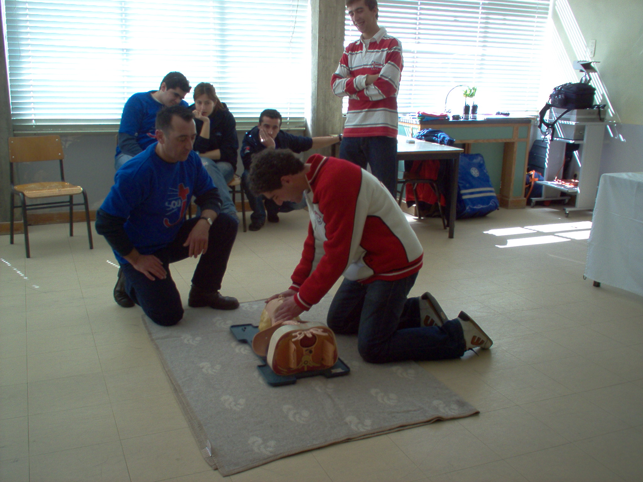 Members of the Youth of the Portuguese Red Cross (Corpo da Juventude da Cruz Vermelha Portuguesa) providing education in First Aid in the school "Escola Secundária com terceiro ciclo ensino básico Cristina Torres", Figueira da Foz